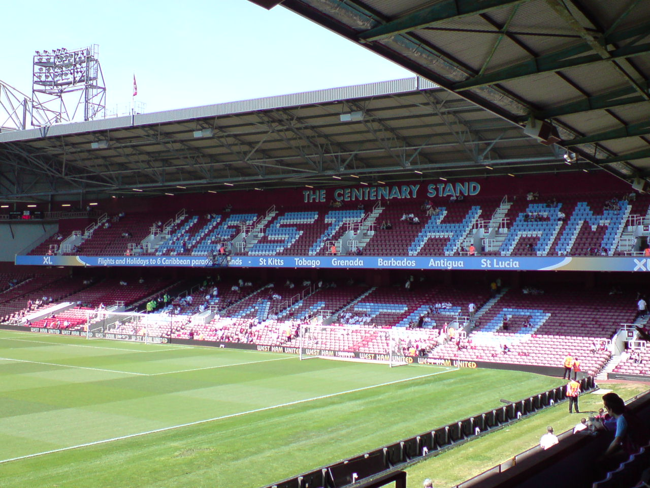 Centenary Stand at West Ham's Boleyn Ground (May 2008)